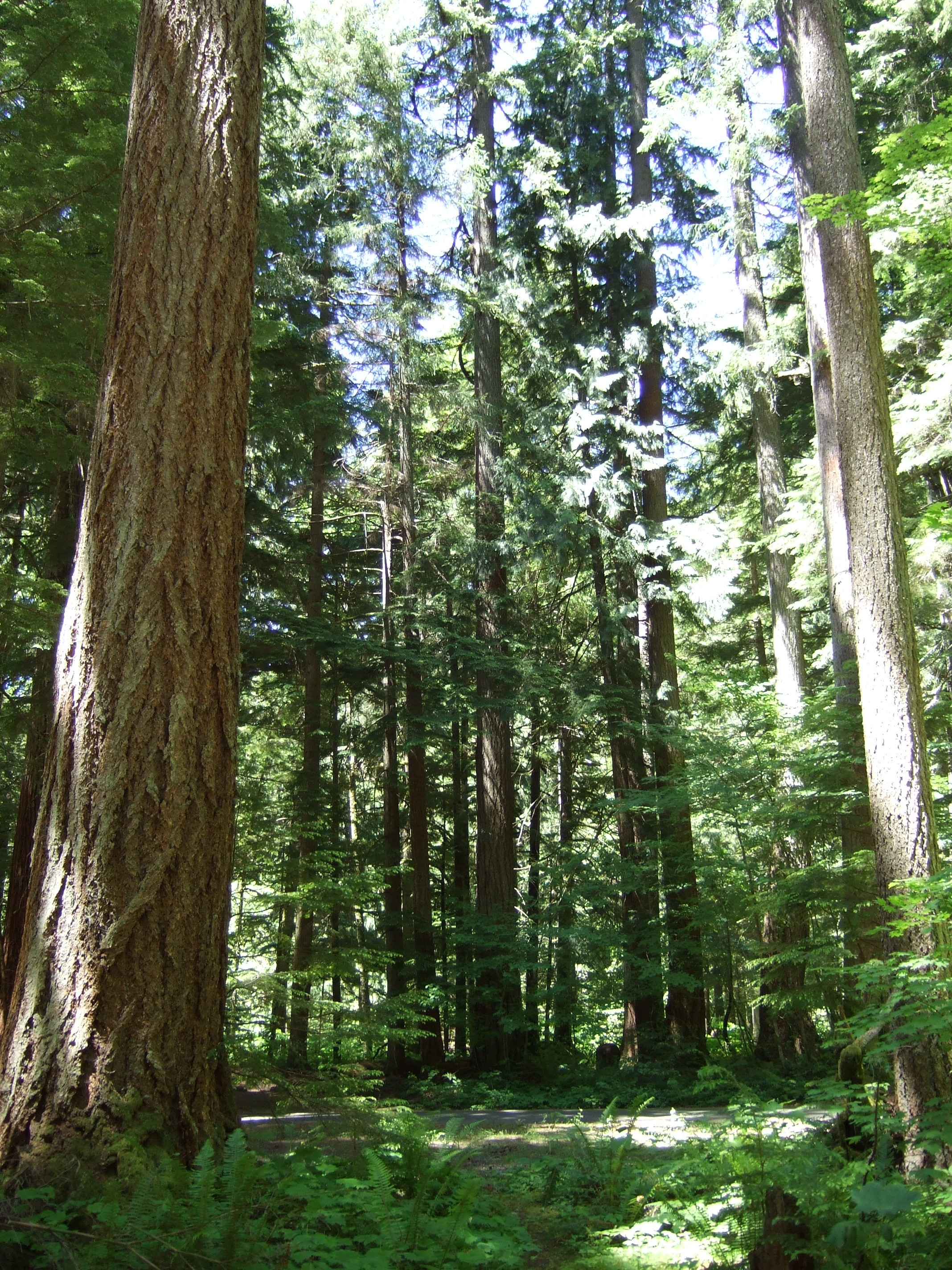 Now entering Federation Forest State Park